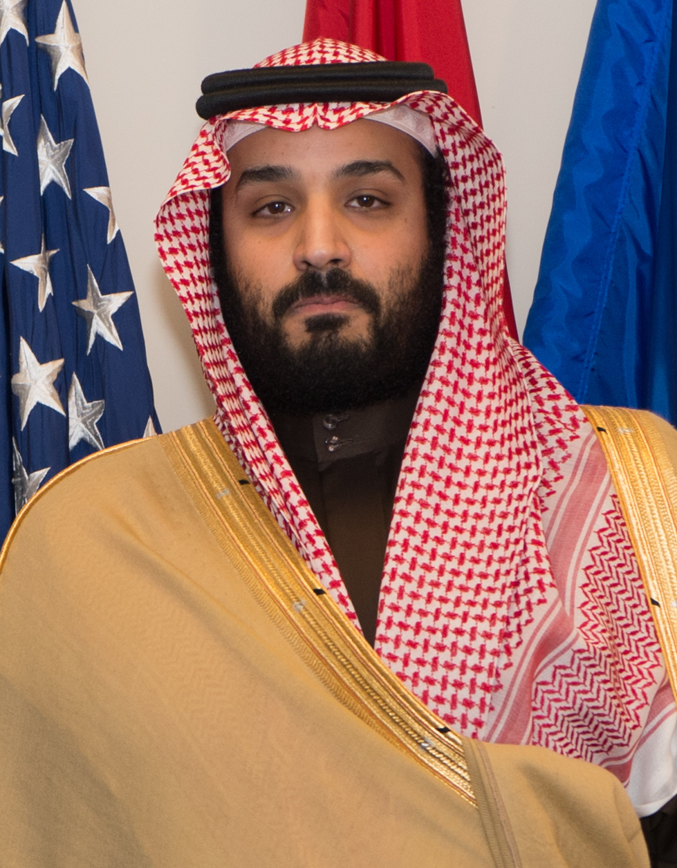 Defense Secretary Jim Mattis stands with Deputy Crown Price of Saudi Arabia Mohammad bin Salman Al Saud before a bi-lateral meeting held at the Pentagon in Washington, D.C., Mar. 16, 2017. (DOD photo by Sgt. Amber I. Smith)